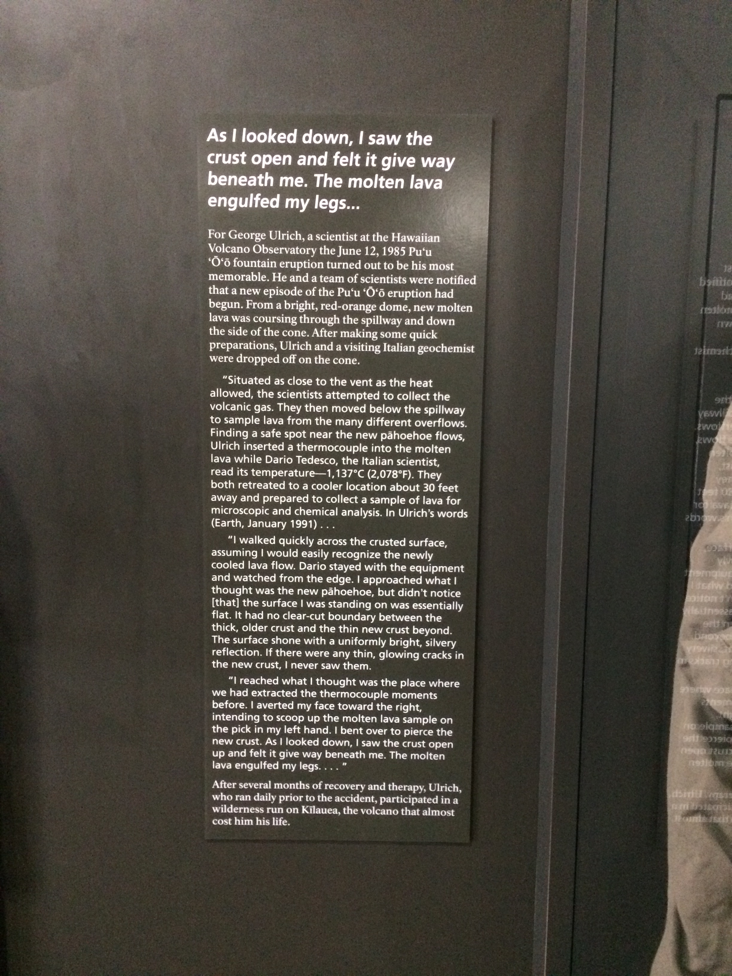 Informative display at Volcanoes National park describing the injury of George Ulrich in 1985